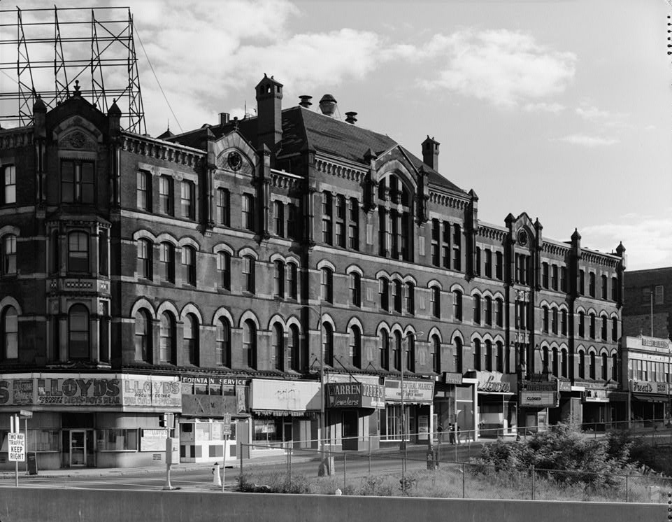 Academy Building, Fall River, Massachusetts. West elevation, Theater entrance in southern portion